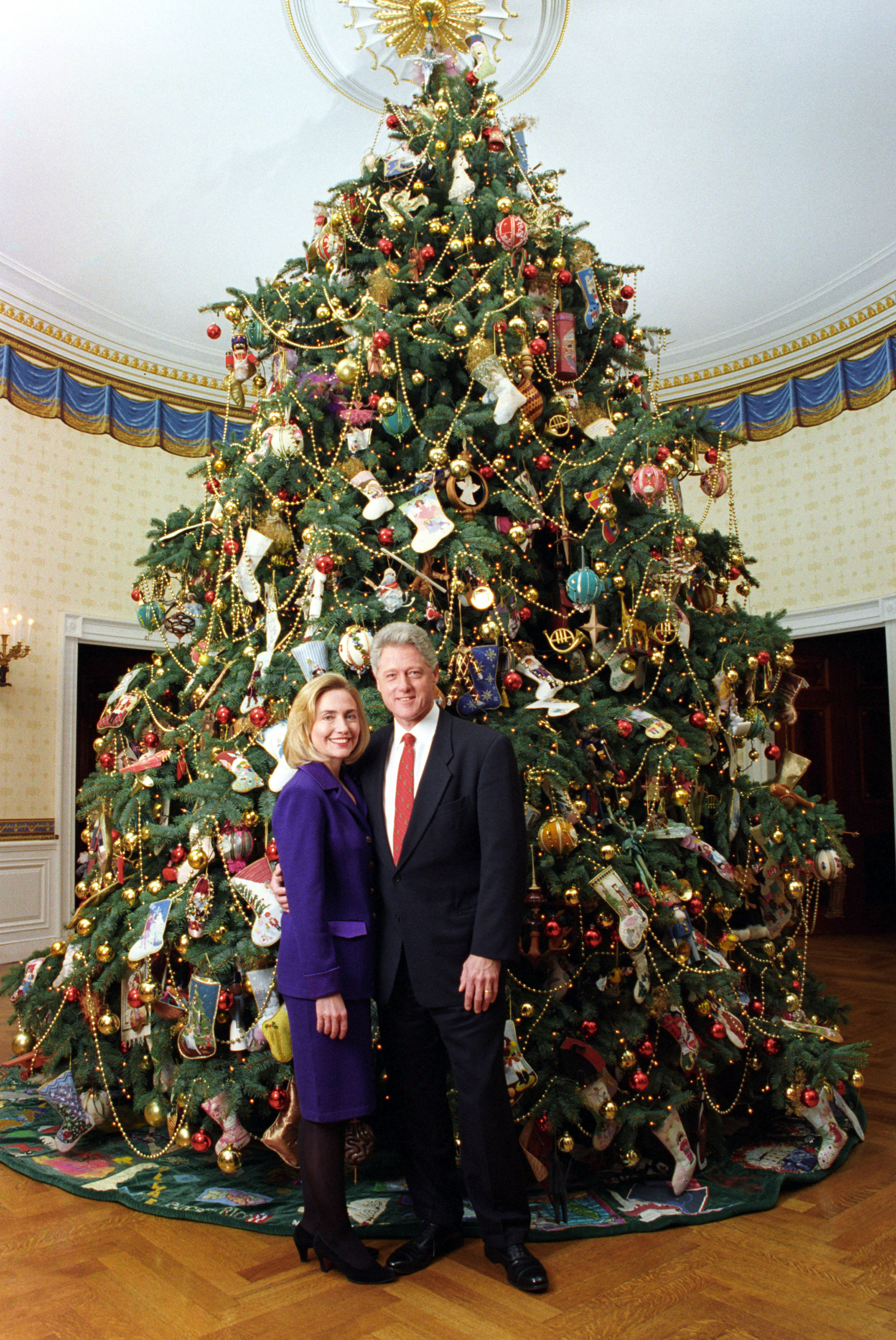 President Clinton and Hillary Rodham Clinton posing next to the 1996 White House Christmas tree for their official Christmas portrait